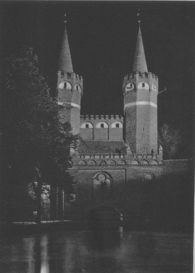 Portowa Stargard